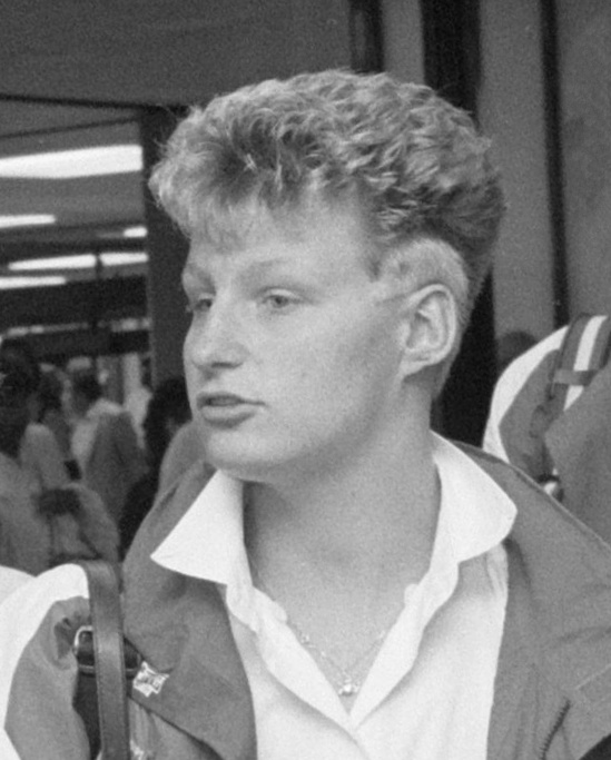 Karin Brienesse (misindentified as Marianne Muis at the source)